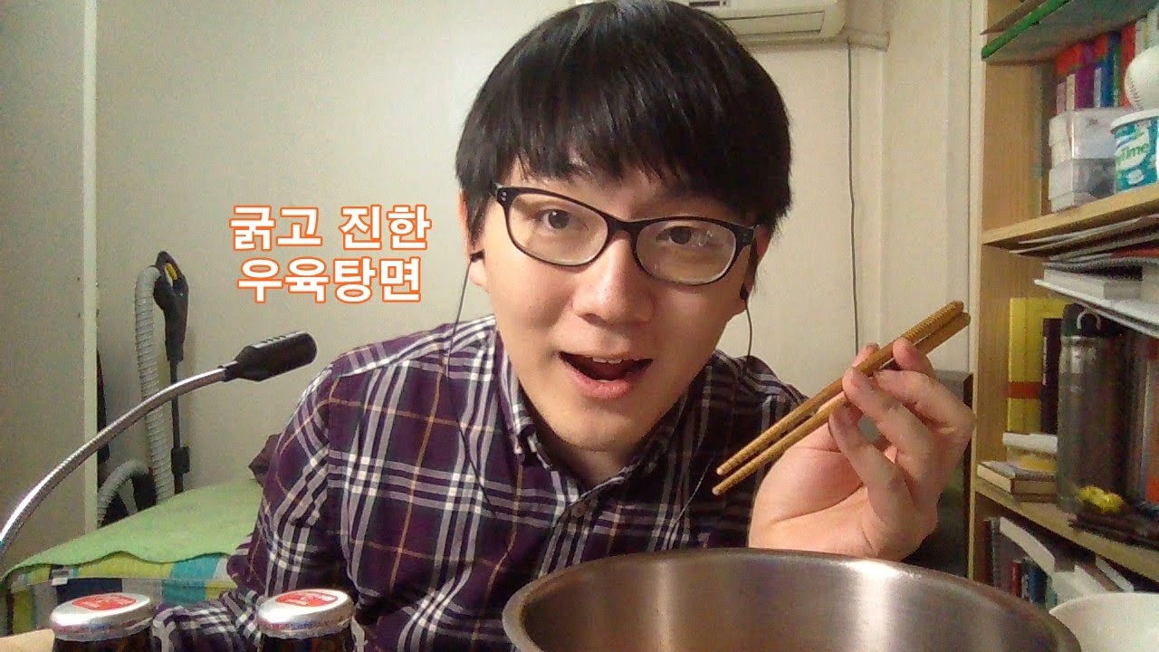 Thumbnail image for a YouTube muk-bang video.